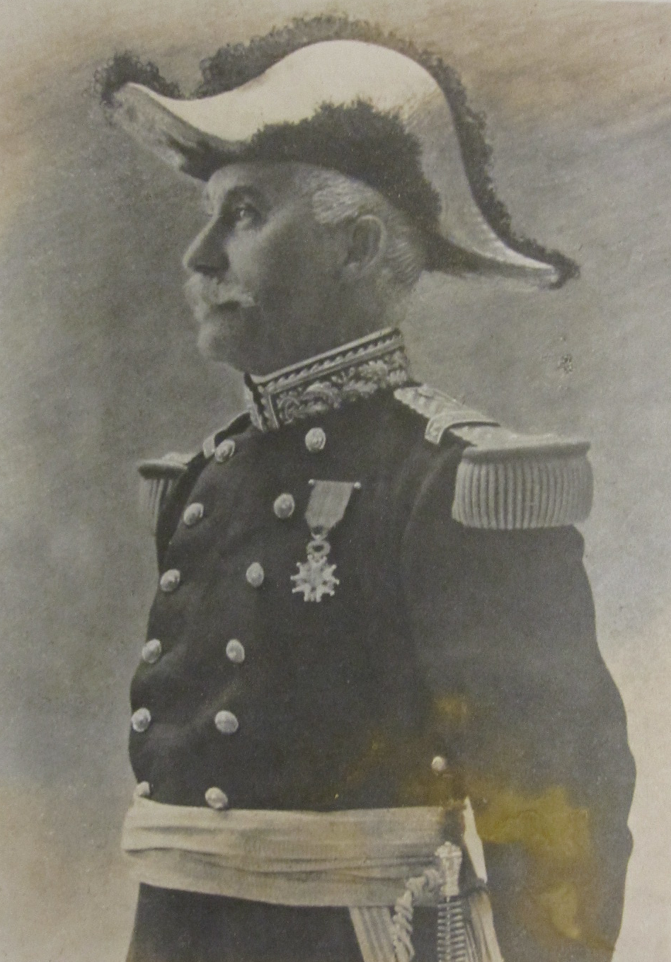 Général Marcot